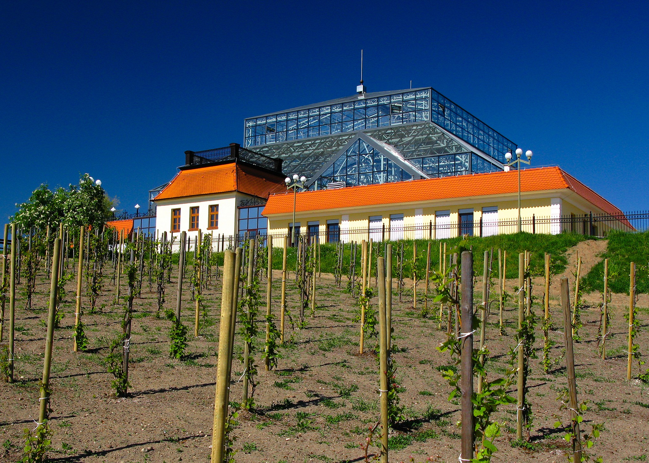 Palmhouse after rebuild